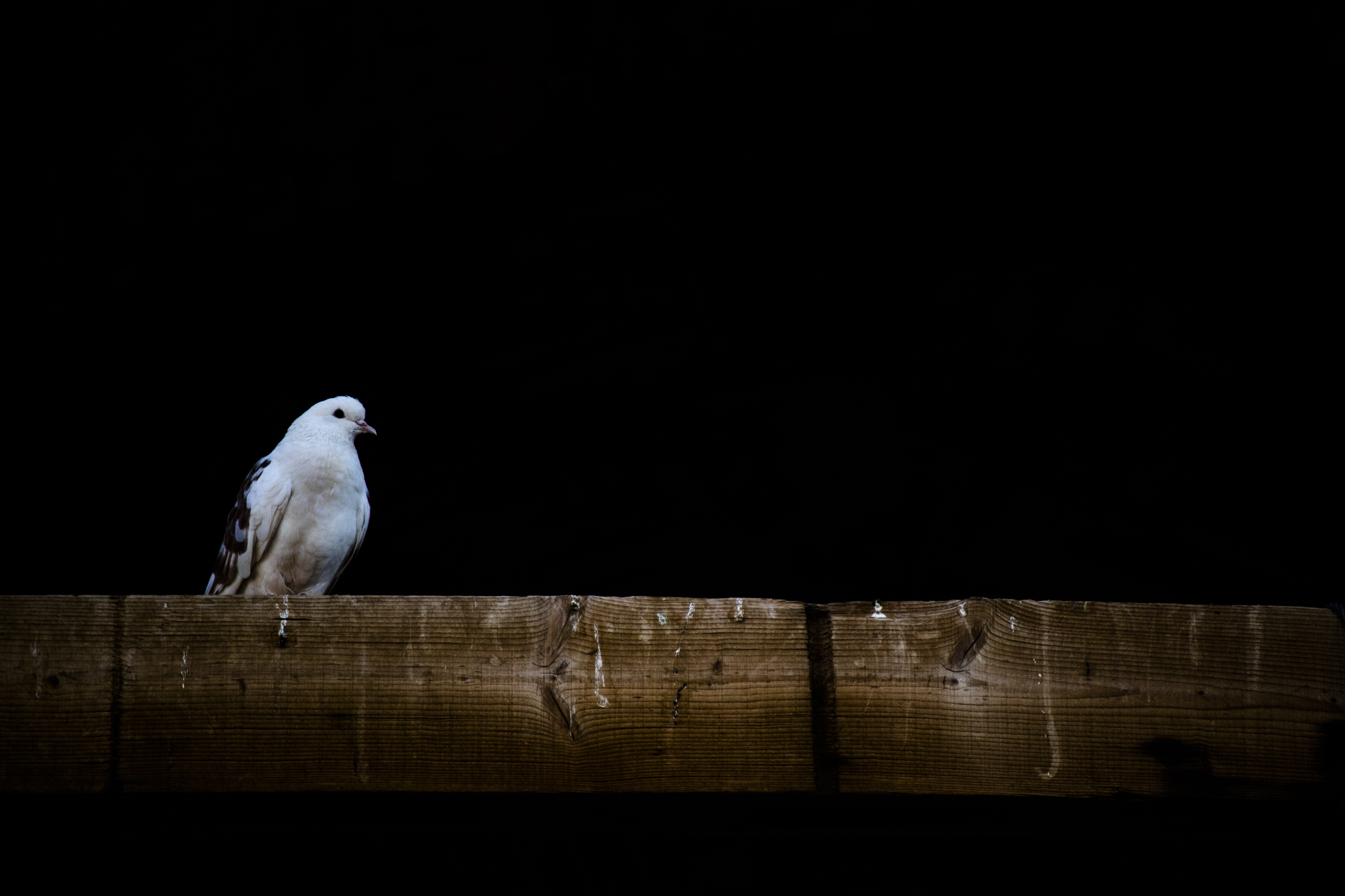 Deir-e Gachin Caravansarai is one of the greatest caravansarais of Iran which is located in the center of Kavir National Park. Its unique qualities is the reason it is called “Mother of Iranian Caravansarais”. It is located in the Central District of Qom County, 80 kilometers north-east of Qom (60 kilometers into Garmsar Freeway) and 35 kilometers south-west of Varamin. (Photo by: Mostafa Meraji, wiki loves monuments 2018)